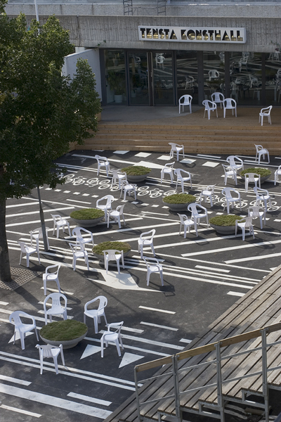 image of Tensta Konsthall